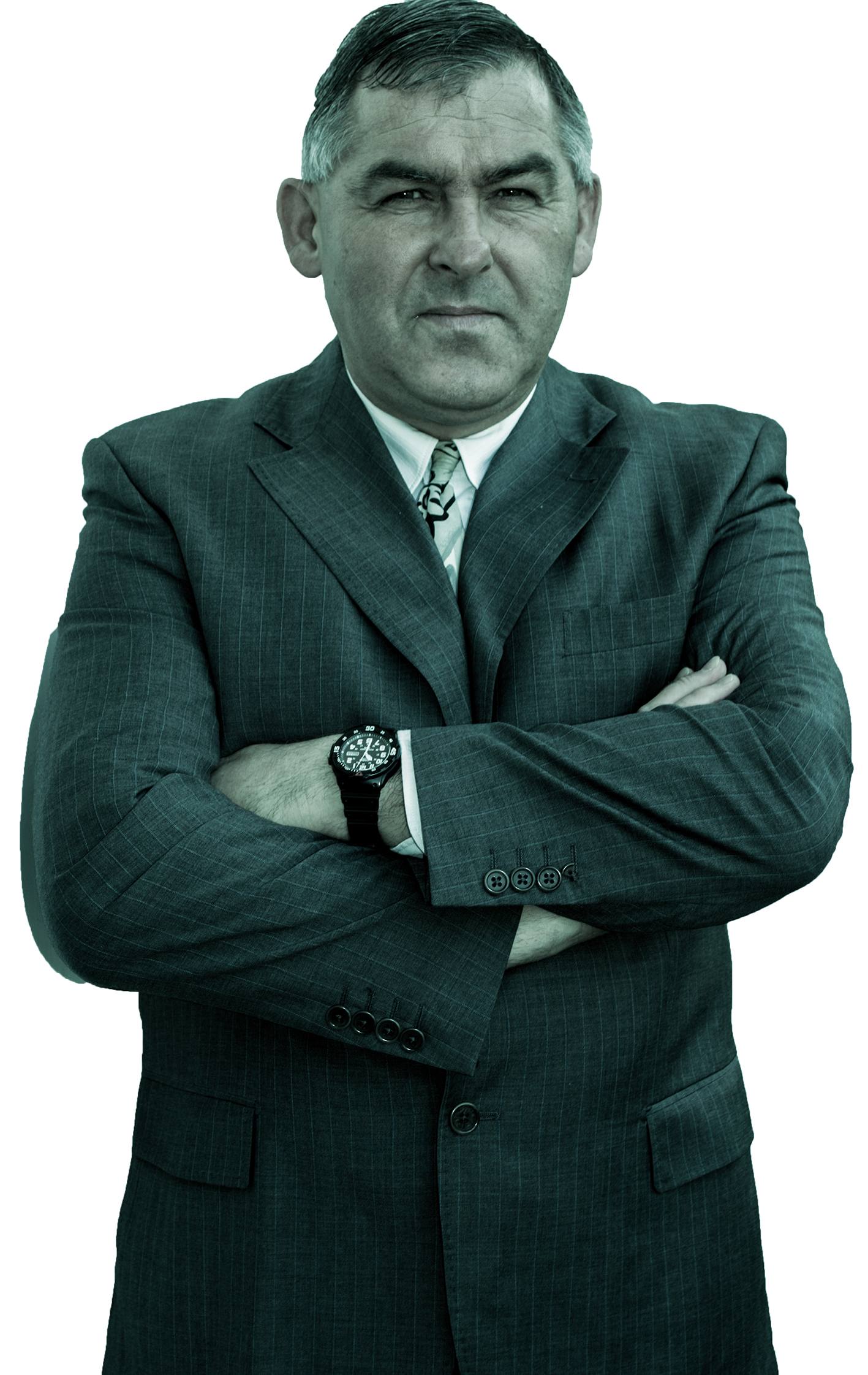 Original foto used for the cover of the novel „Niemand sagt was“